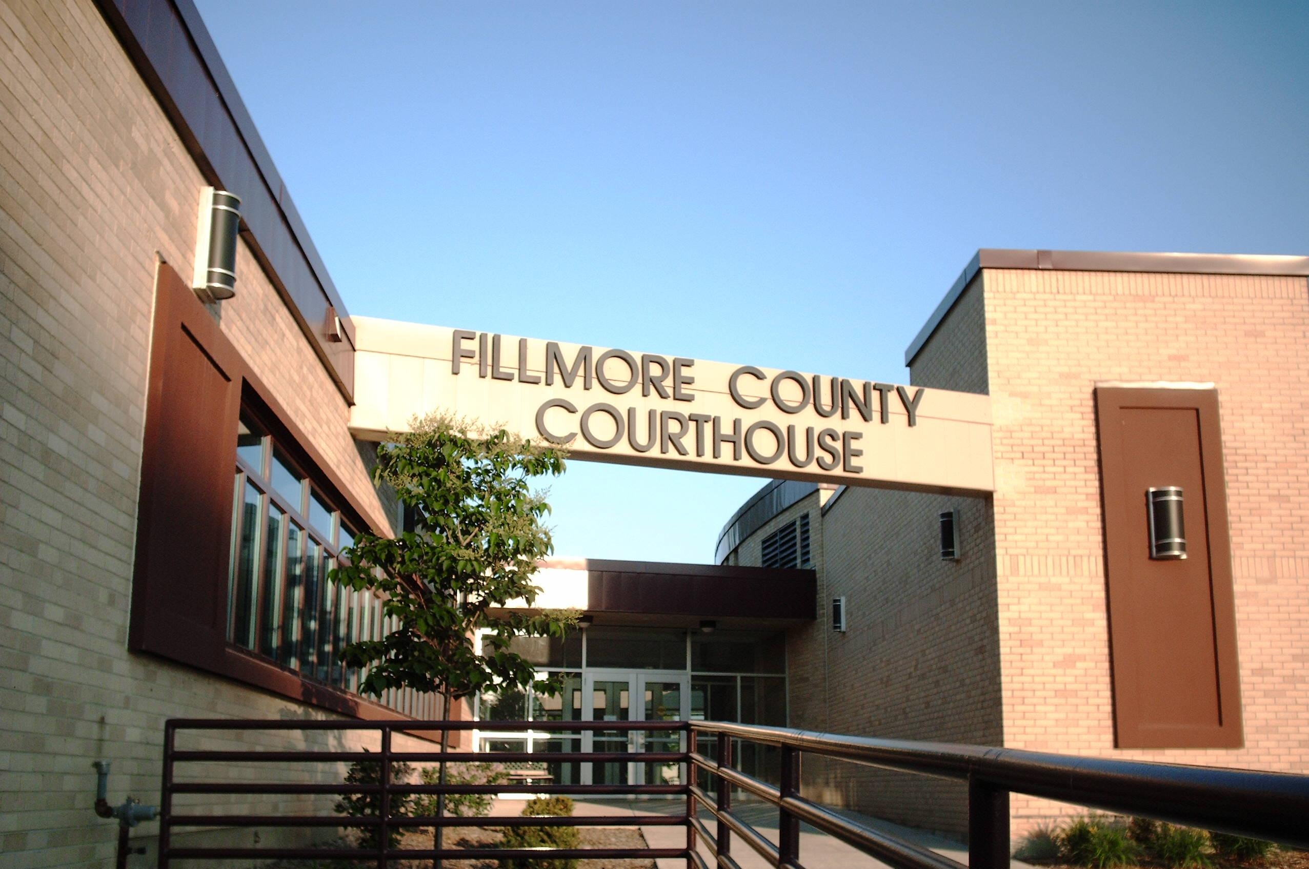 Photo I took of the Fillmore County Courthouse in Preston, Minnesota on 2006-05-28. CC & GFDL.